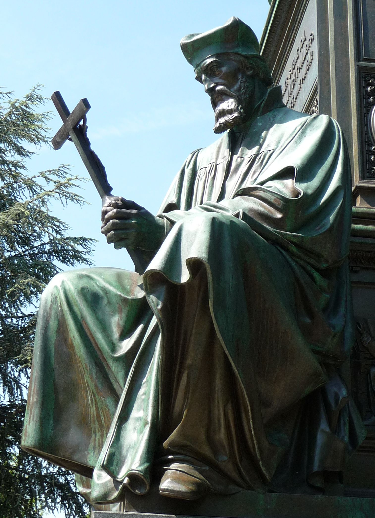 Lutherdenkmal (Worms): Jan Hus